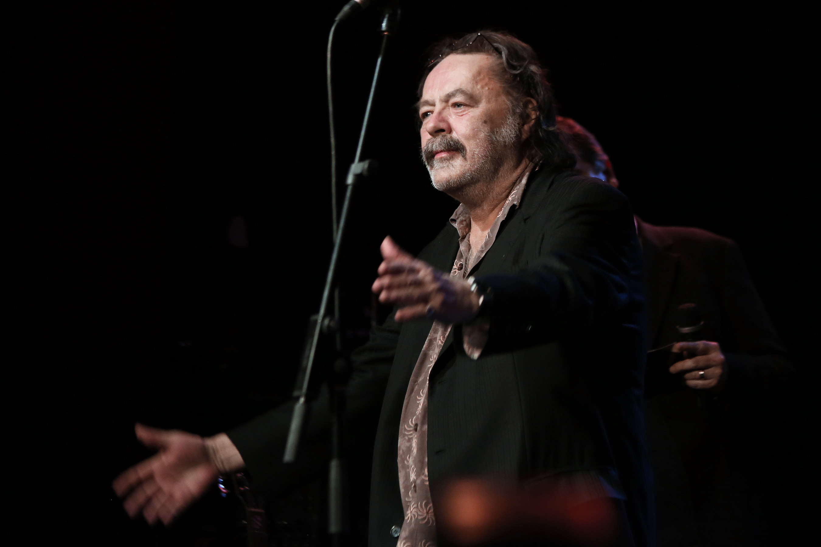 Austrian Cabaret Award 2012 (Porgy & Bess, Vienna).